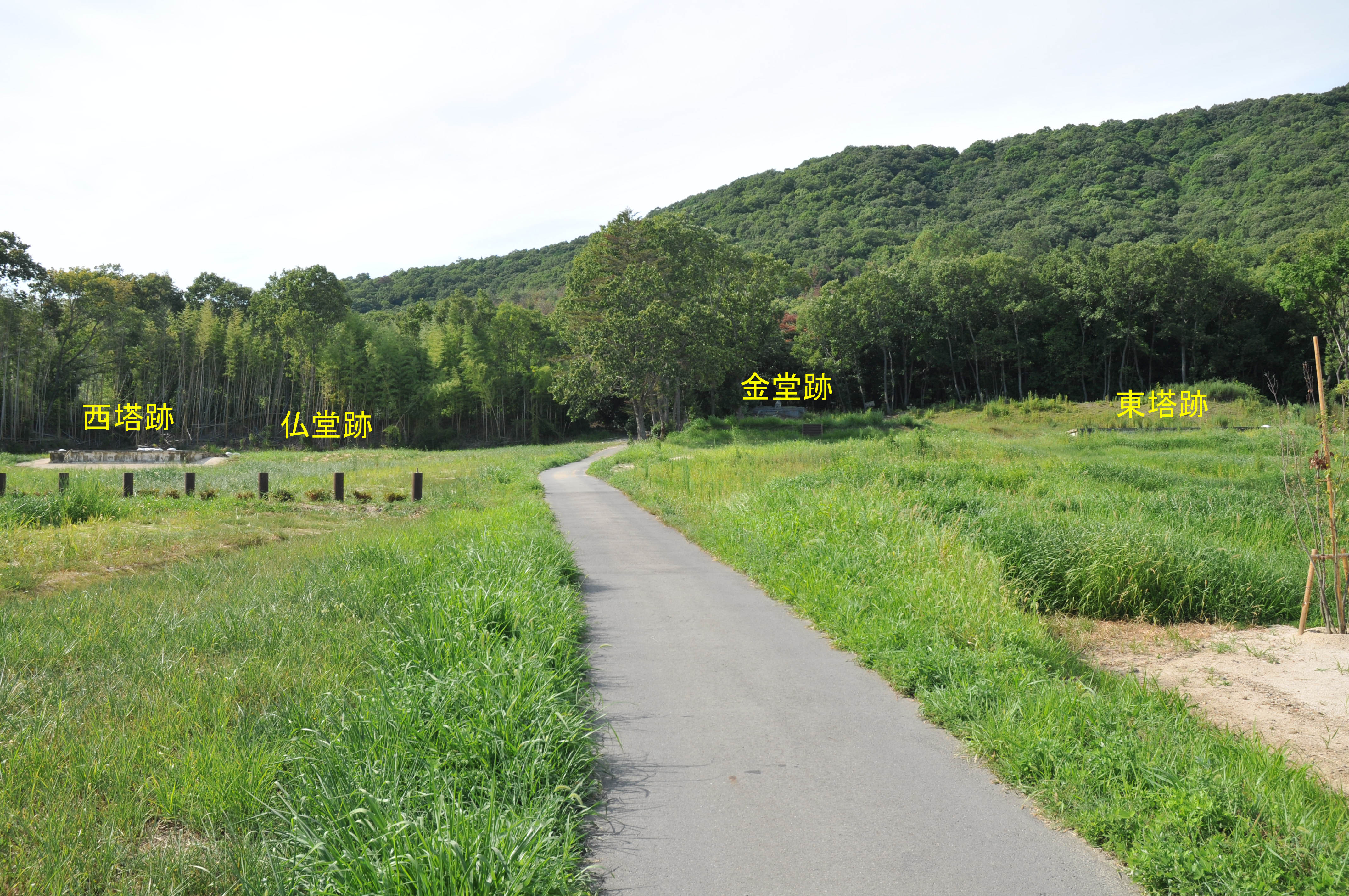 arrangement of the temple